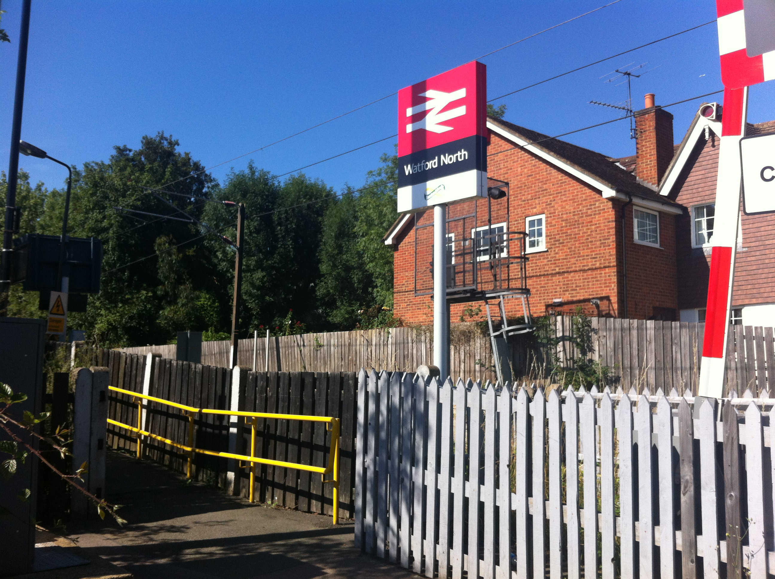 Watford North railway station in Watford, Hertfordshire, UK